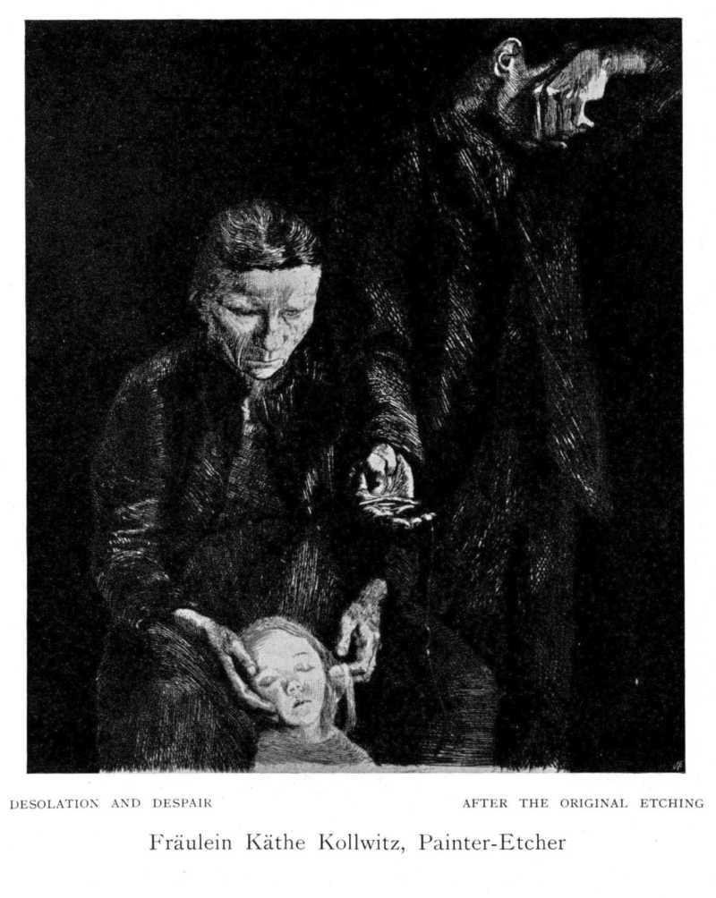 1905 print of etching from 'The Peasants' War' ("Weberzyklus" von "Ein Weberaufstand") two series of etchings Kollwitz made in the 1890s. This print is after a page of Women painters of the world, from the time of Caterina Vigri, 1413-1463, to Rosa Bonheur and the present day, by Walter Shaw Sparrow, The Art and Life Library, Hodder & Stoughton, 27 Paternoster Row, London